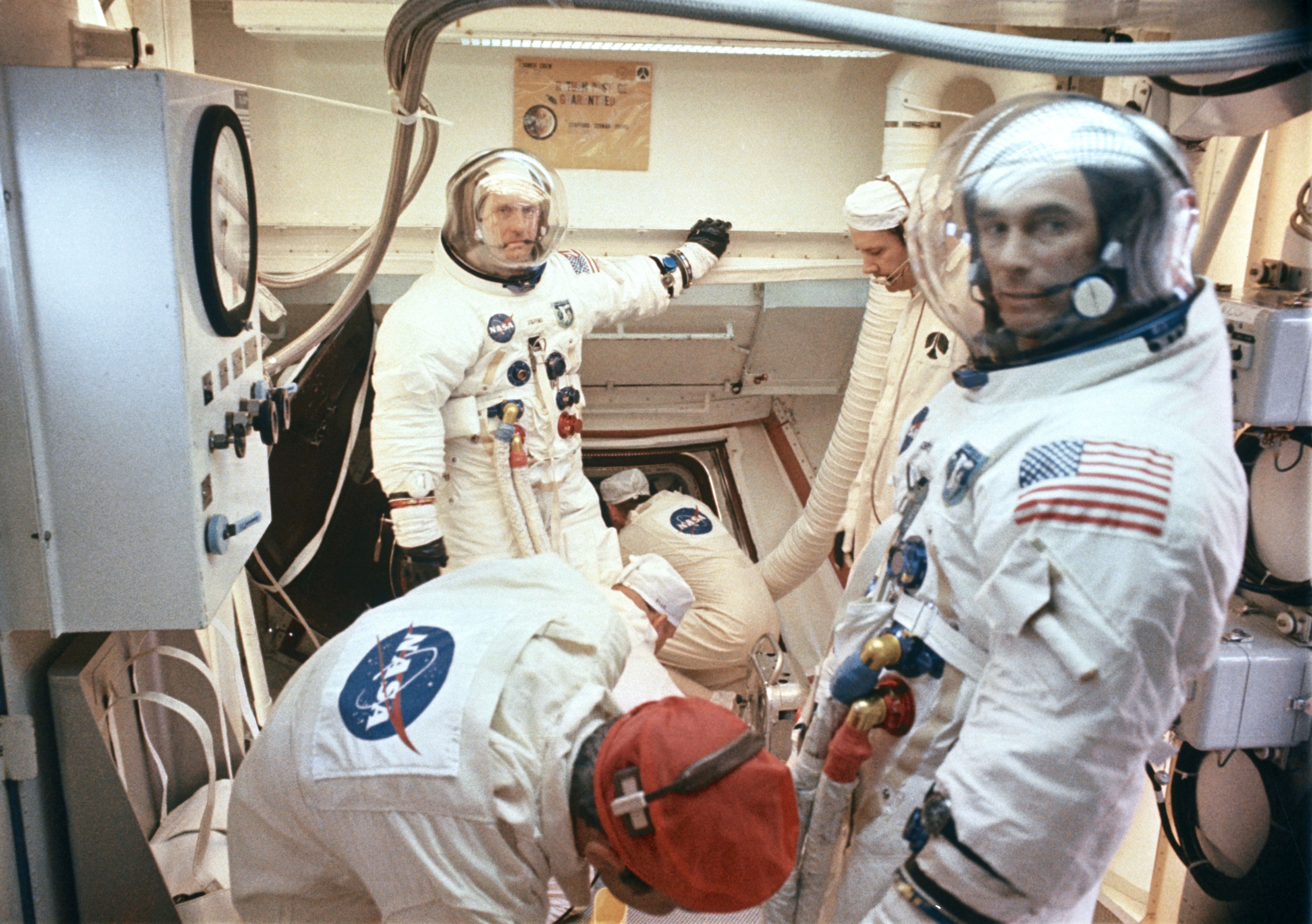 Interior view of the White Room at Pad B, Launch Complex 39, Kennedy Space Center, showing preparations being made for insertion of the Apollo 10 crew into their spacecraft during the prelaunch countdown. In the background is astronaut Thomas P. Stafford, commander. Astronaut Eugene A. Cernan, lunar module pilot, is in right foreground.